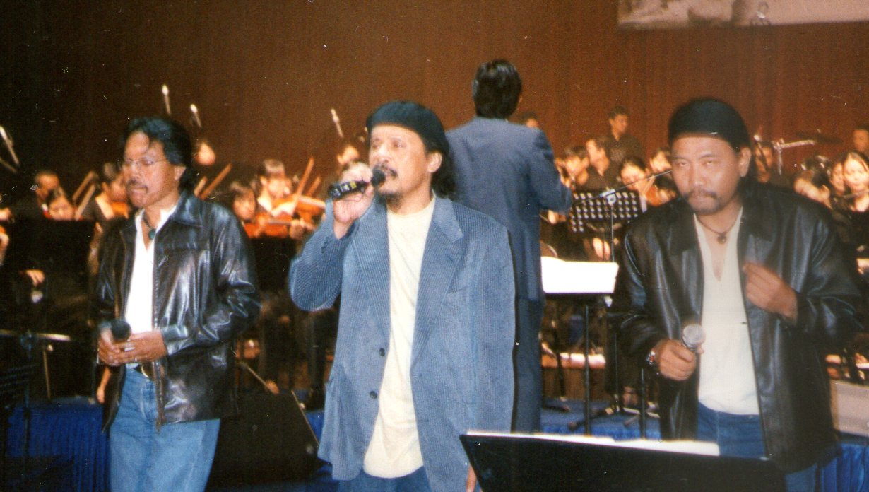 Kopratasa dalam konsert di Universiti Malaya